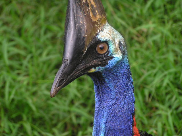 The head of a Southern Cassowary (Casuarius casuarius) at a zoo in Jakarta, Indonesia.